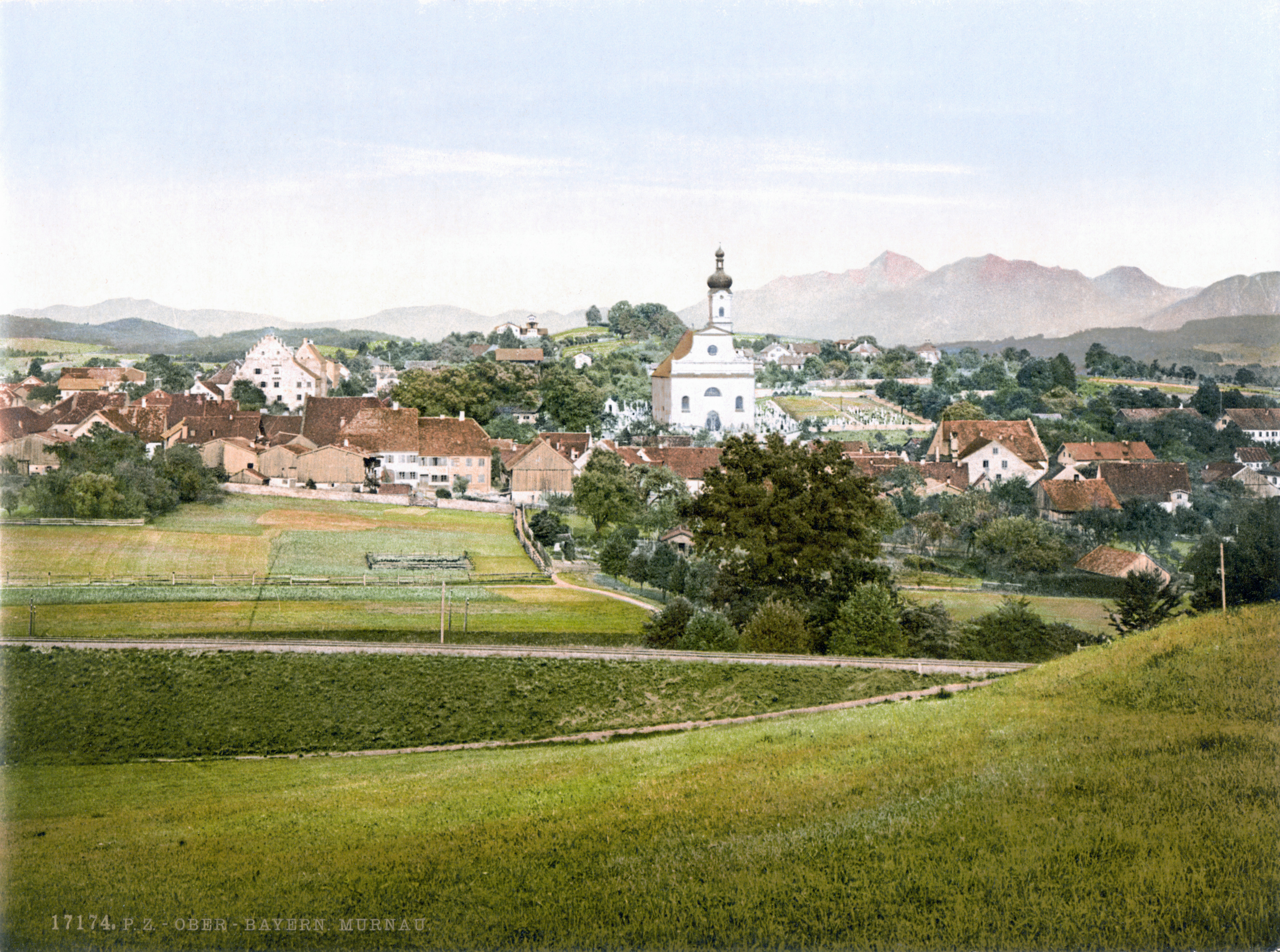 Murnau am Staffelsee in 1900.